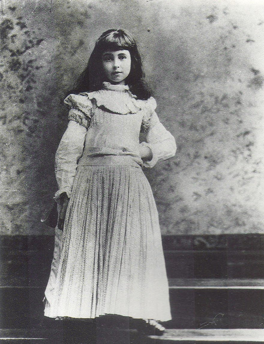 Consuelo Vanderbilt in her youth